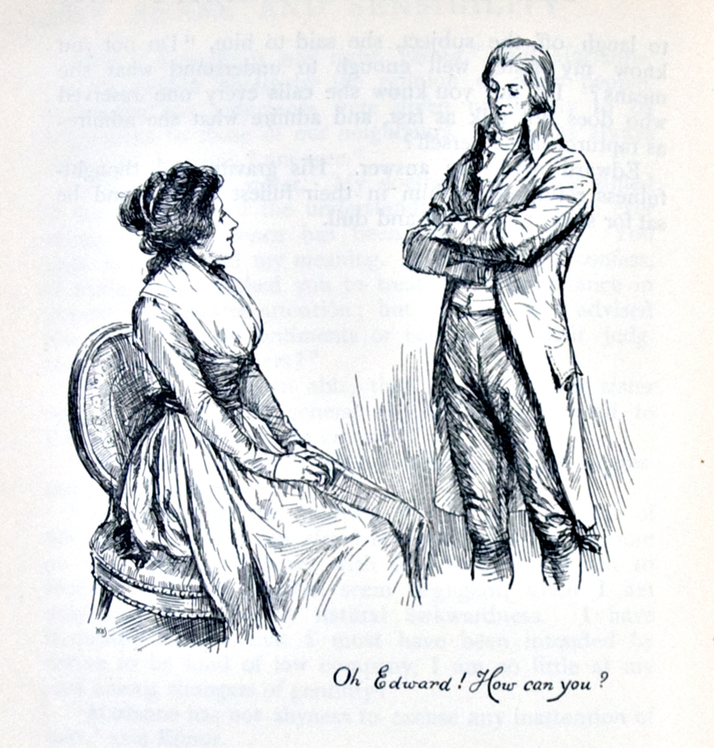 "Oh Edward! How can you?" - Marianne chastises Edward for joking about Willoughby looking for a wife. Austen, Jane. Sense and Sensibility. London: George Allen, 1899, page 104.